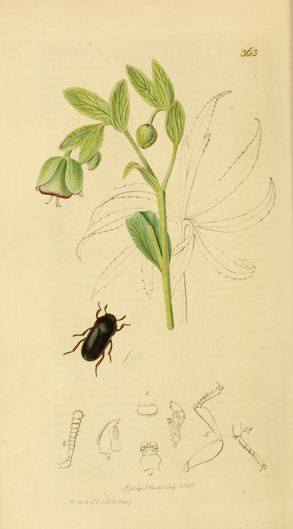 An illustration from British Entomology by John Curtis. Coleoptera: Uloma fagi or Alphitobius laevigatus (Bake-house beetle).The plant is Helleborus foetidus (Bear’s Foot)